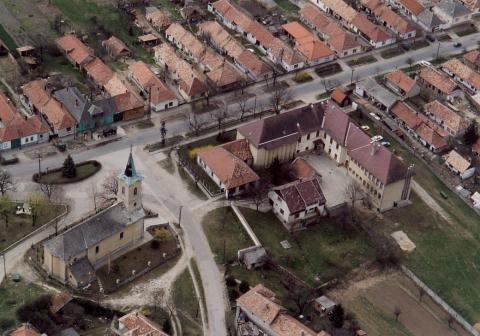 Piliscsév, Hungary, aerialphotography